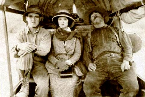 Still from the American film Wild Honey (1922) with Priscilla Dean, on page 13 of the March 23, 1922 Silverscreen magazine.